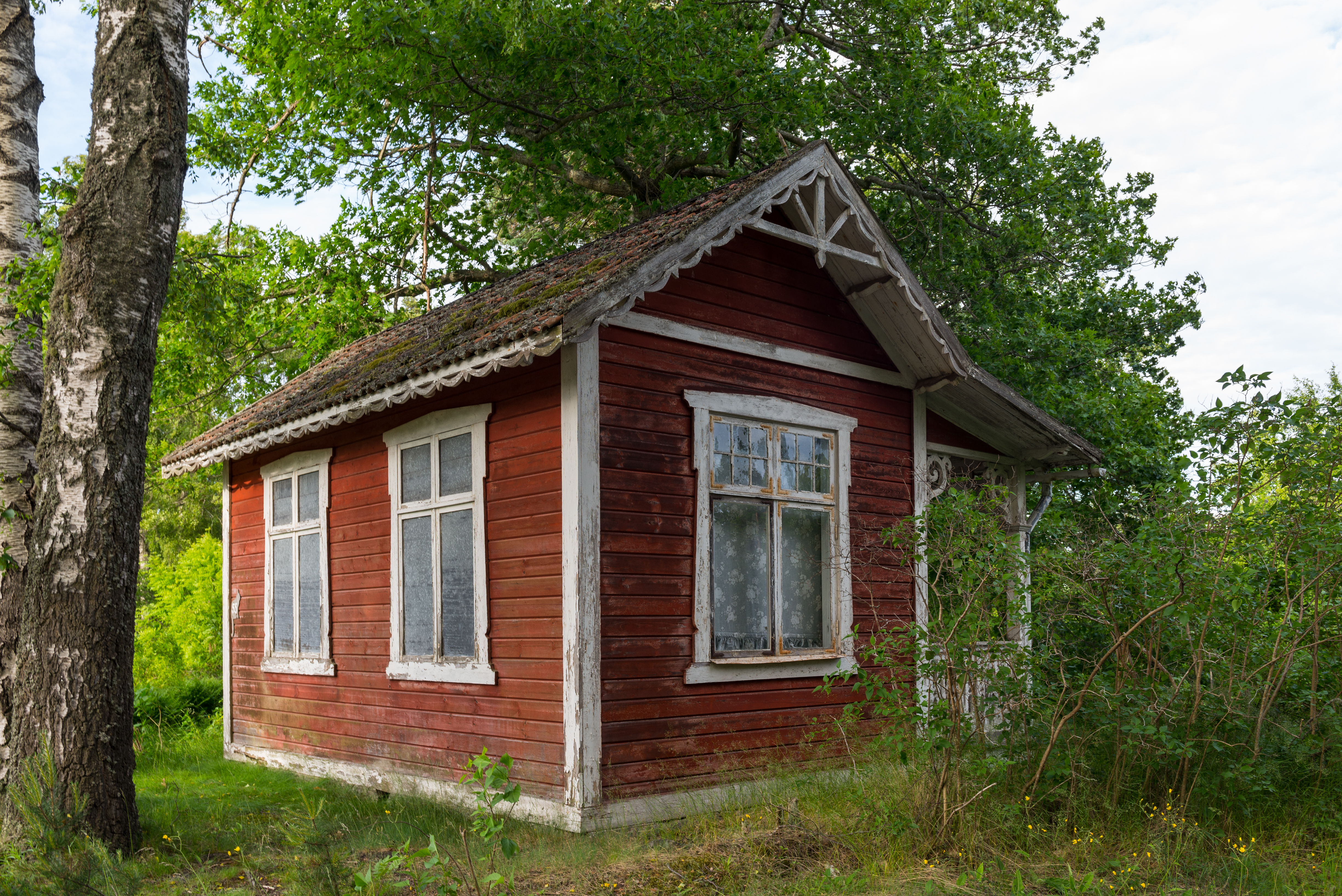 Small cottage on the island Skarpö in the Stockholm archipelago.